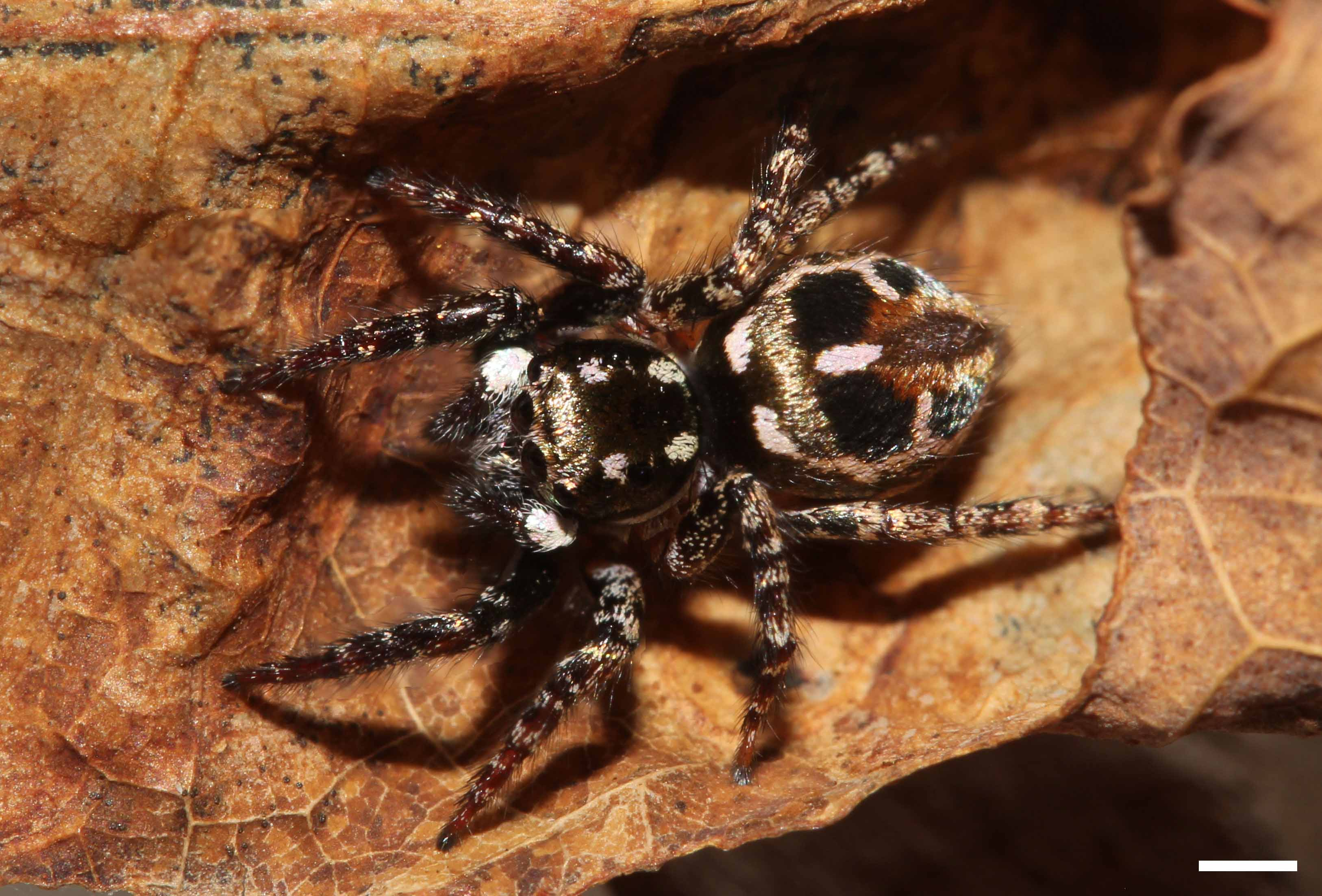 A female Anasaitis canosa jumping spider after it emerged from a temporary shelter under a rolled-up portion of a dried leaf. Found near Greenville, South Carolina. Focus stacked from two images.